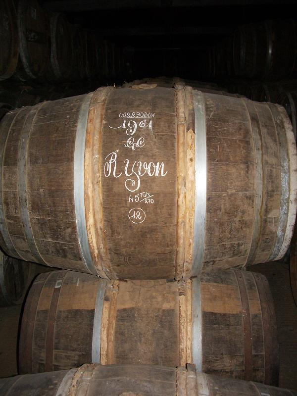 Touring the cellars of Hennessy with many oak casks all full of cognac